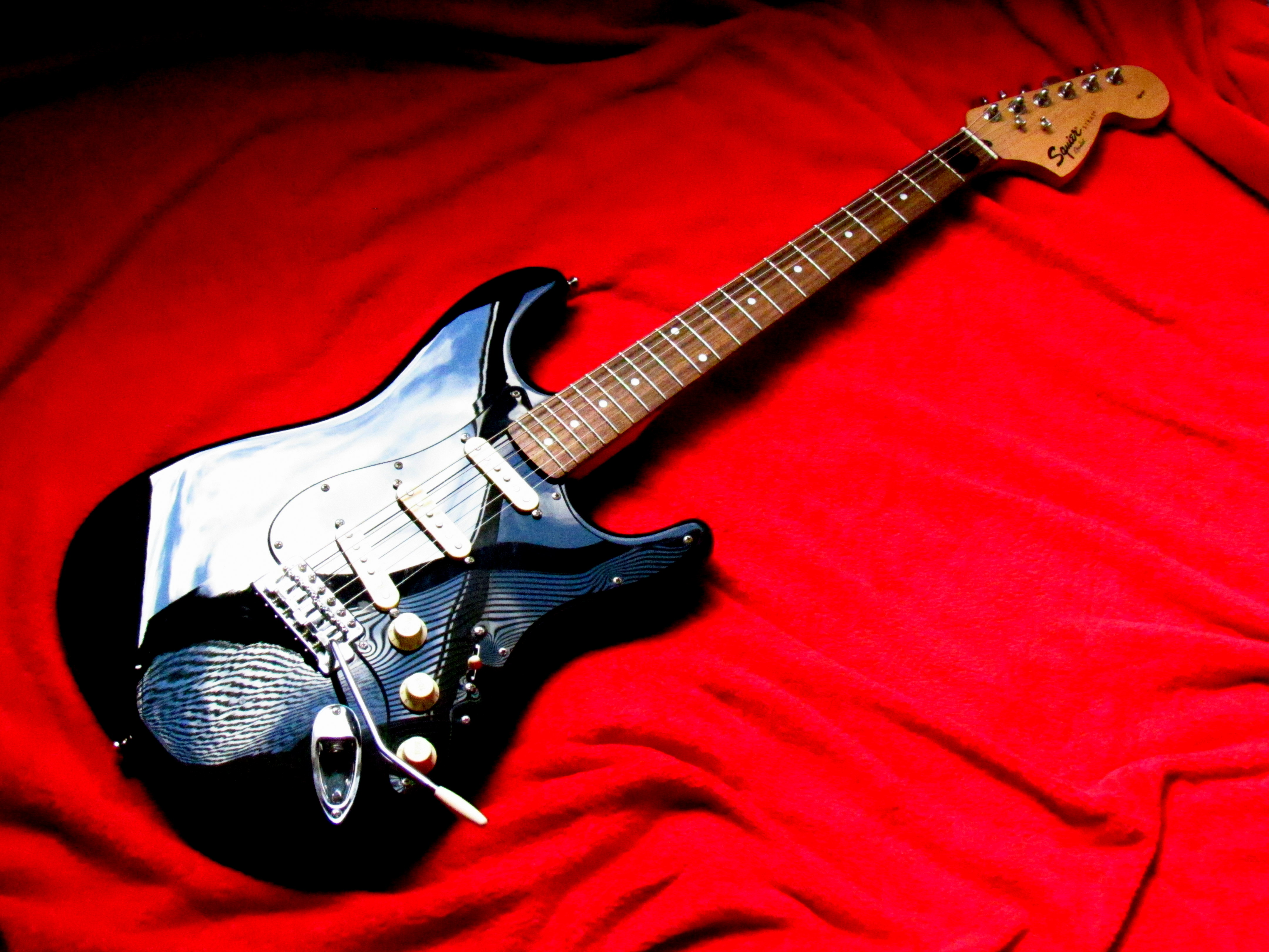 Fender squier stratocaster, black